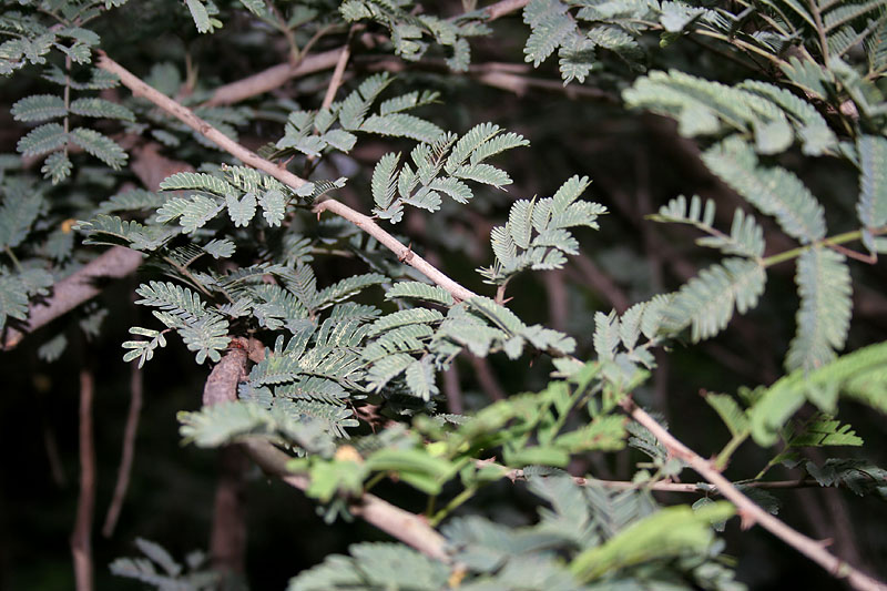 Ronjh, Safed Keekar, White-barked acacia or Nayibela Acacia leucophloea in Hyderabad , India.